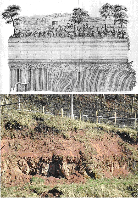 Hutton Unconformity at Jedburgh, Scotland, illustrated by John Clerk in 1787 with a recent photography (2003) by Keith Montgomery. The Jedburgh - Newcastle road (A68) is above the section. The section is located about 5 minutes walk from the Jedburgh Abbey, on the outskirts of the town. This is a good example of an "angular unconformity" in which tilted sedimentary beds are overlain by horizontal beds. This unconformity represents a long gap in the record of geological time, during which deposition had ceased and folding or faulting occurred, the lower strata tilted, and then deposition resumed.